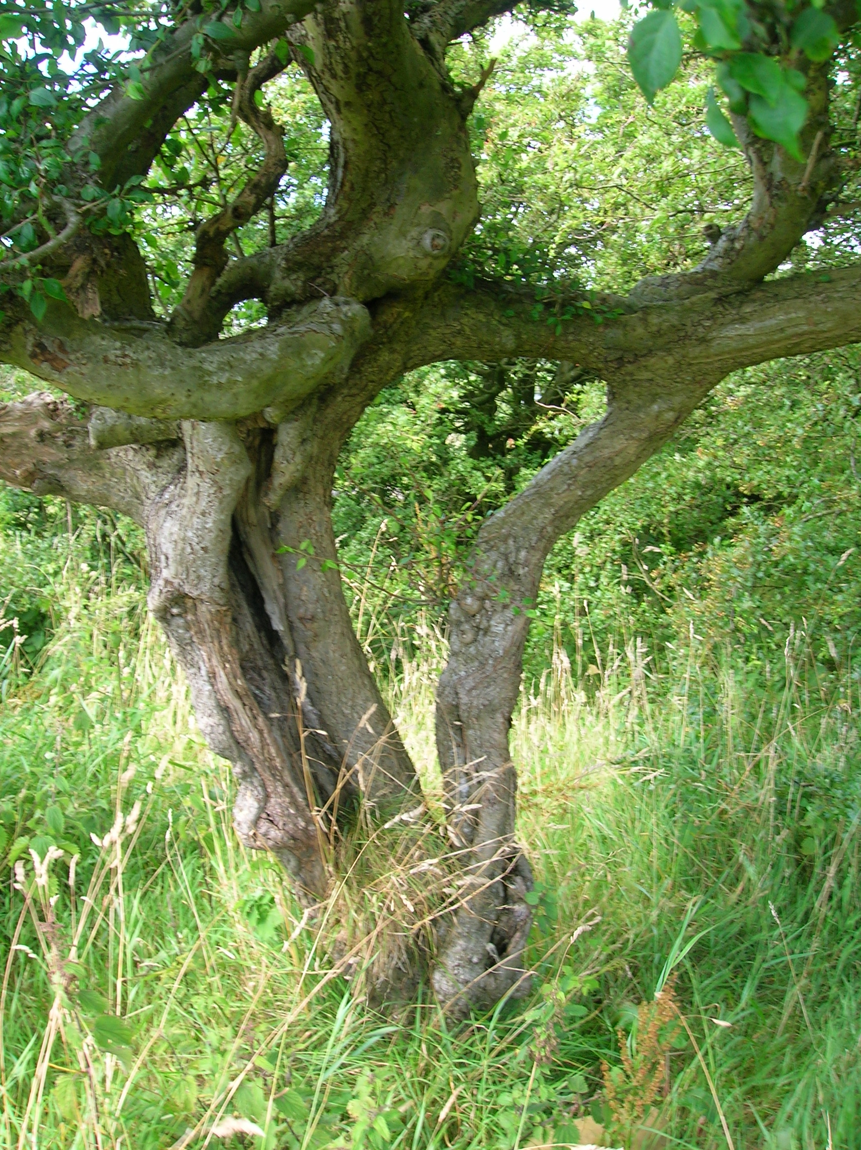 Two inosculated (self-grafted) Crab trees, called a Husband and Wife tree, Lynncraigs, Dalry, North Ayrshire